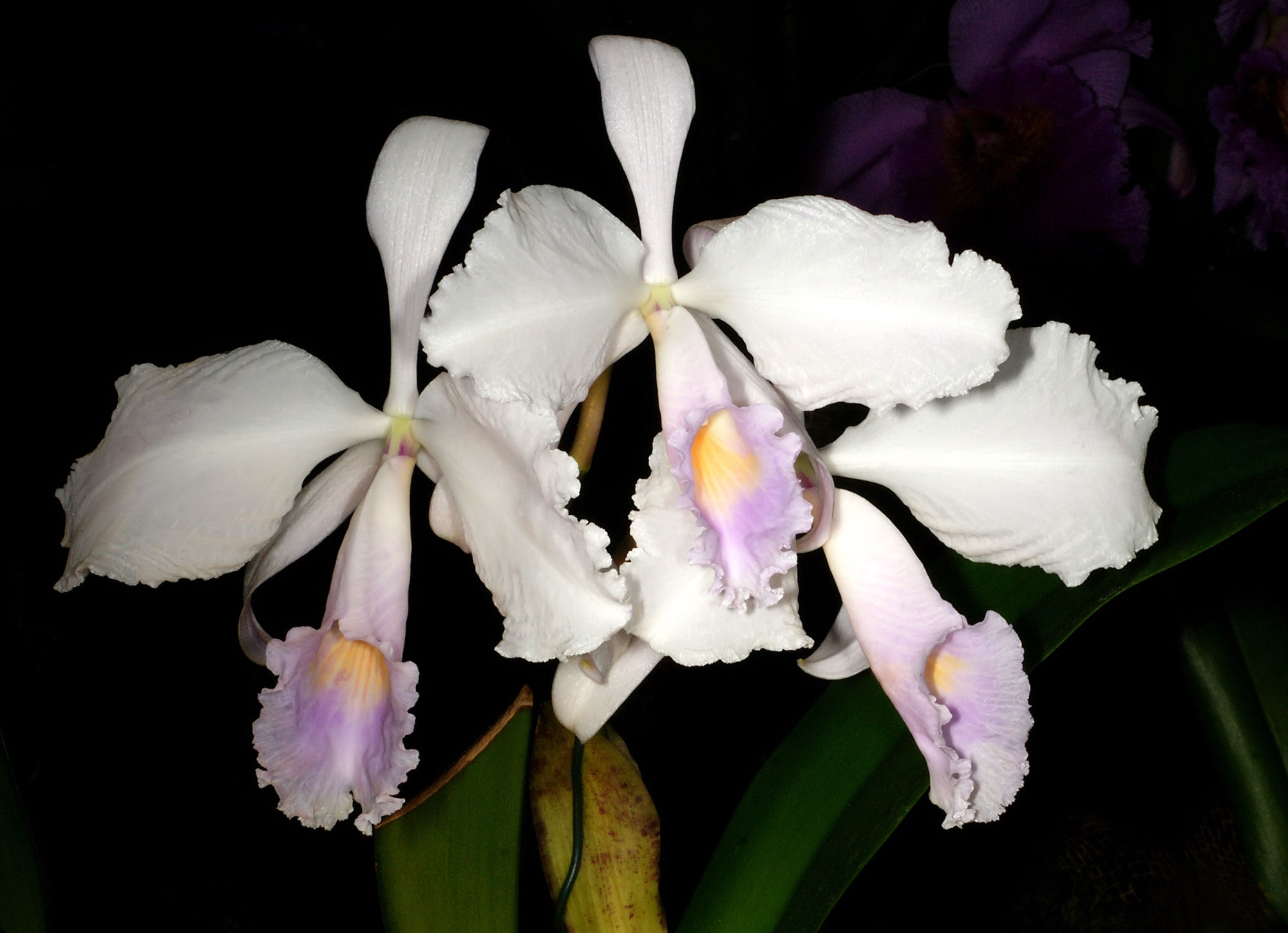 Cattleya schroederae